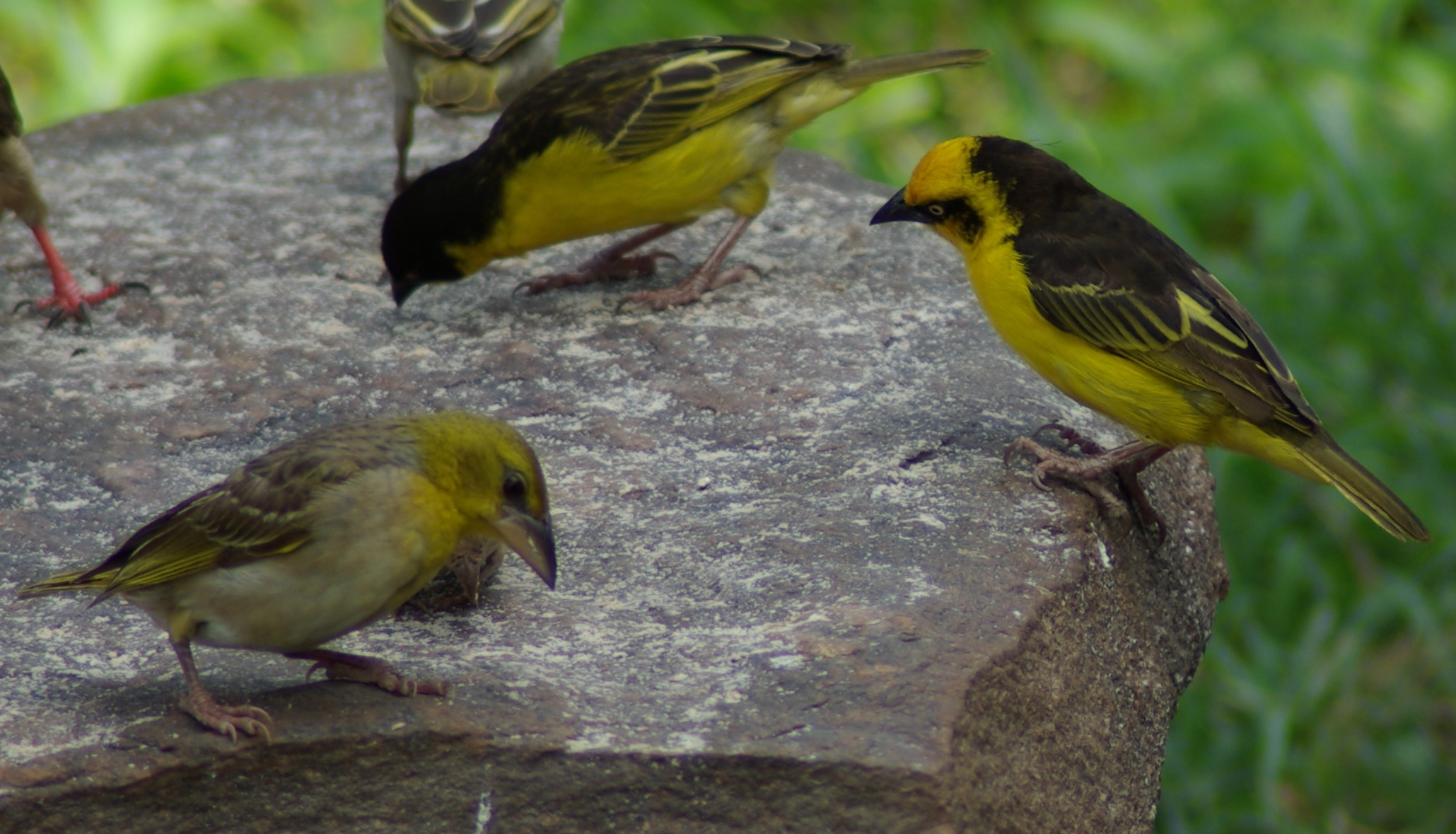 Male Baglafecht Weaver, Ploceus baglafecht reichenowi (yellow head with black markings), female (mostly black head), and female Village Weaver or Black-headed Weaver (pale), Ploceus cucullatus bohndorfii, at a feeder, Masai Mara National Reserve, Kenya. Subspecies determined by geography only. The bird cut off in the background is another Village Weaver, and the foot at left belongs to a Speckled Mousebird. The time stamp is ten hours too early.